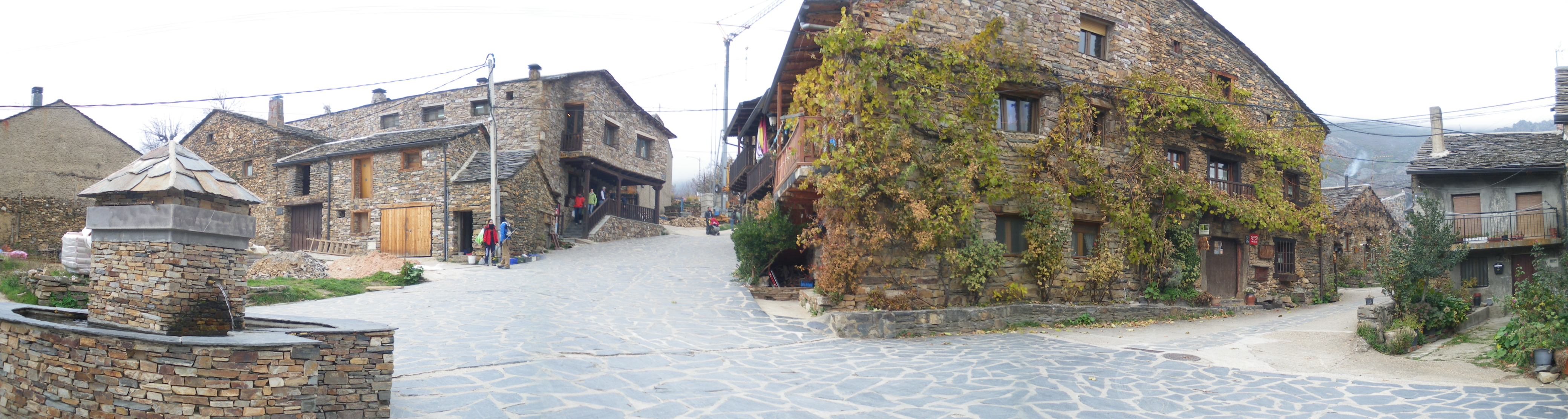 Valverde de los Arroyos, Guadalajara, Spain